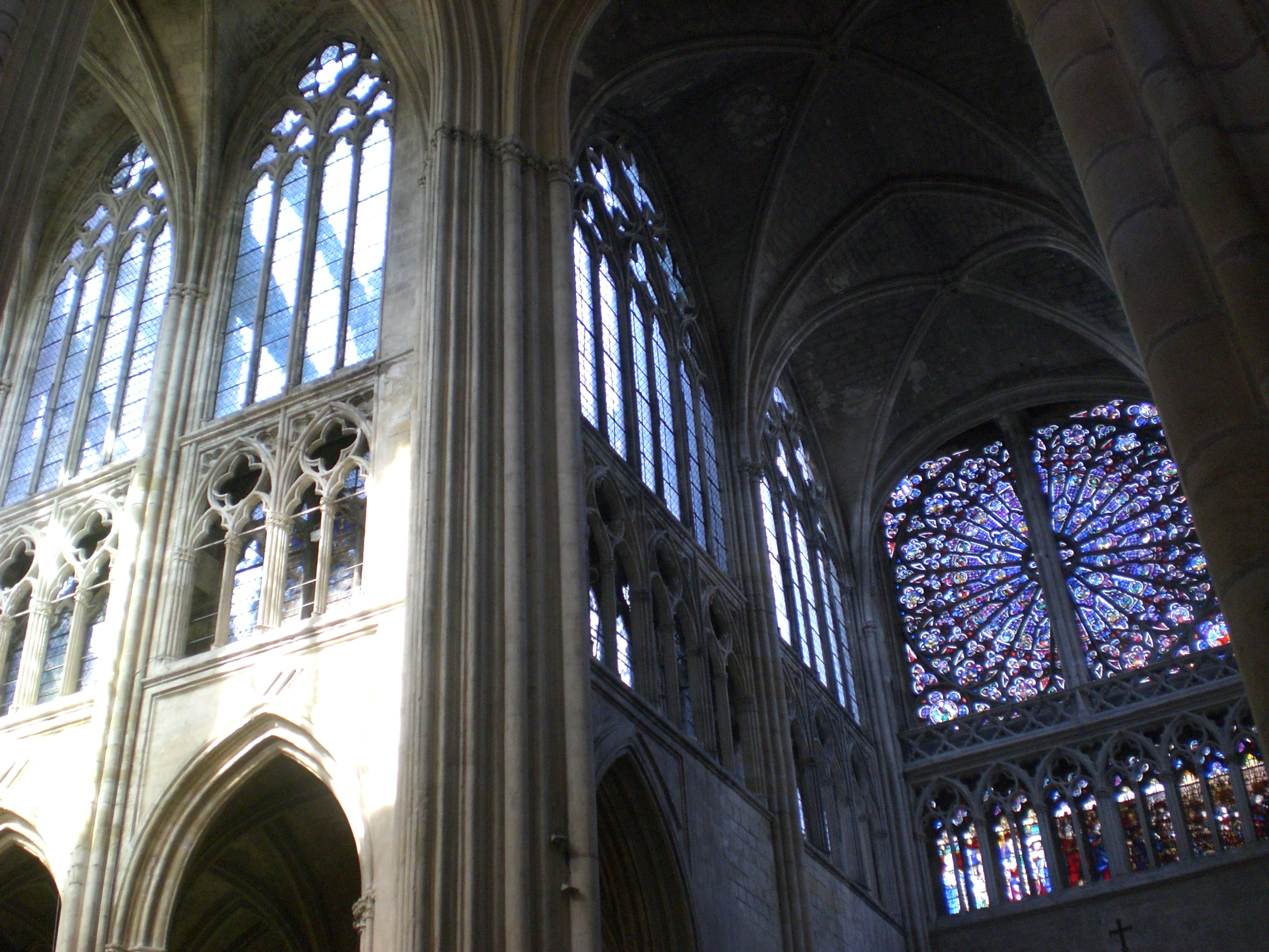 St. Gatien's Cathedral, Tours